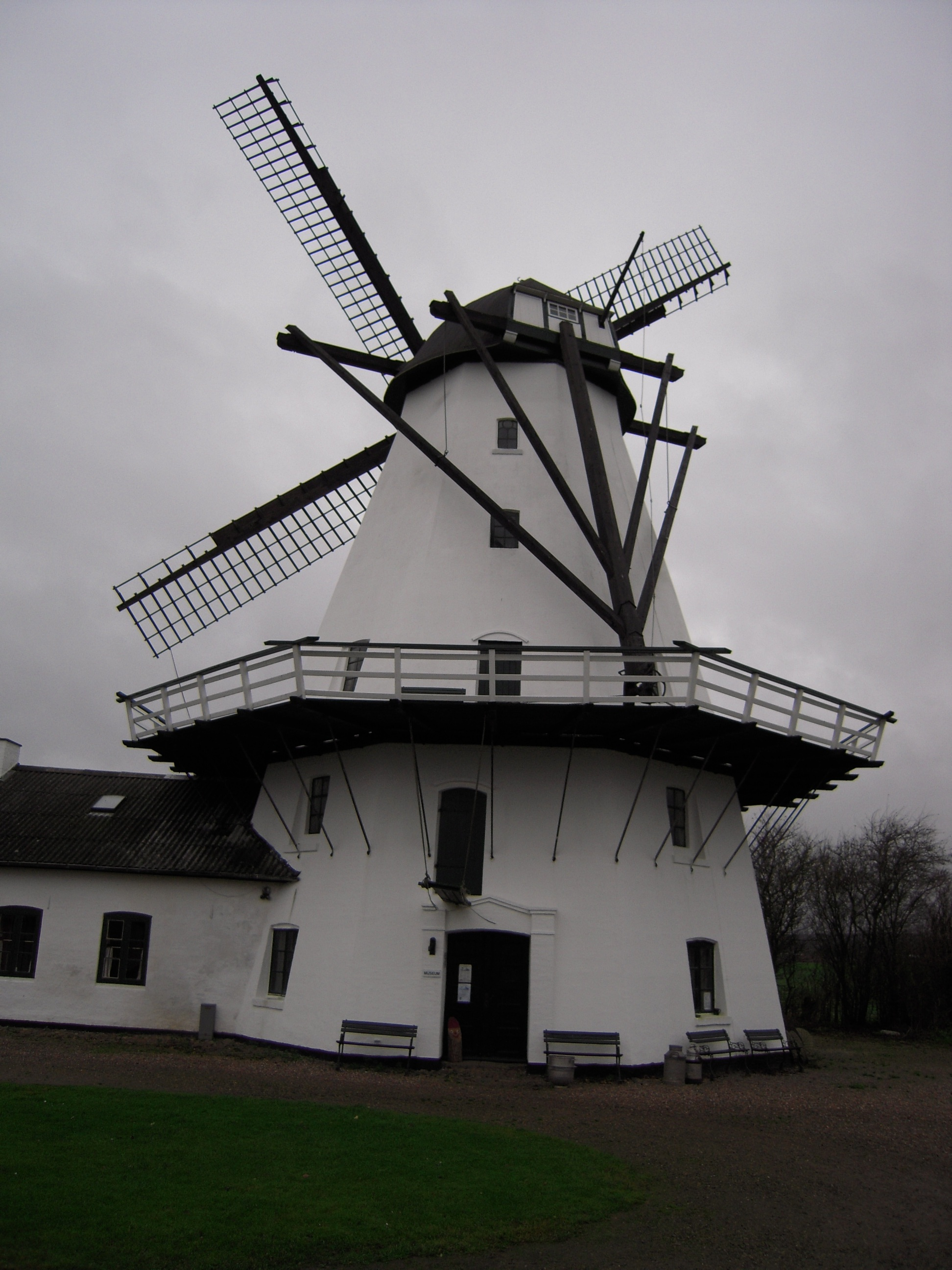 Sillerup Mølle fotograferet fra østsiden